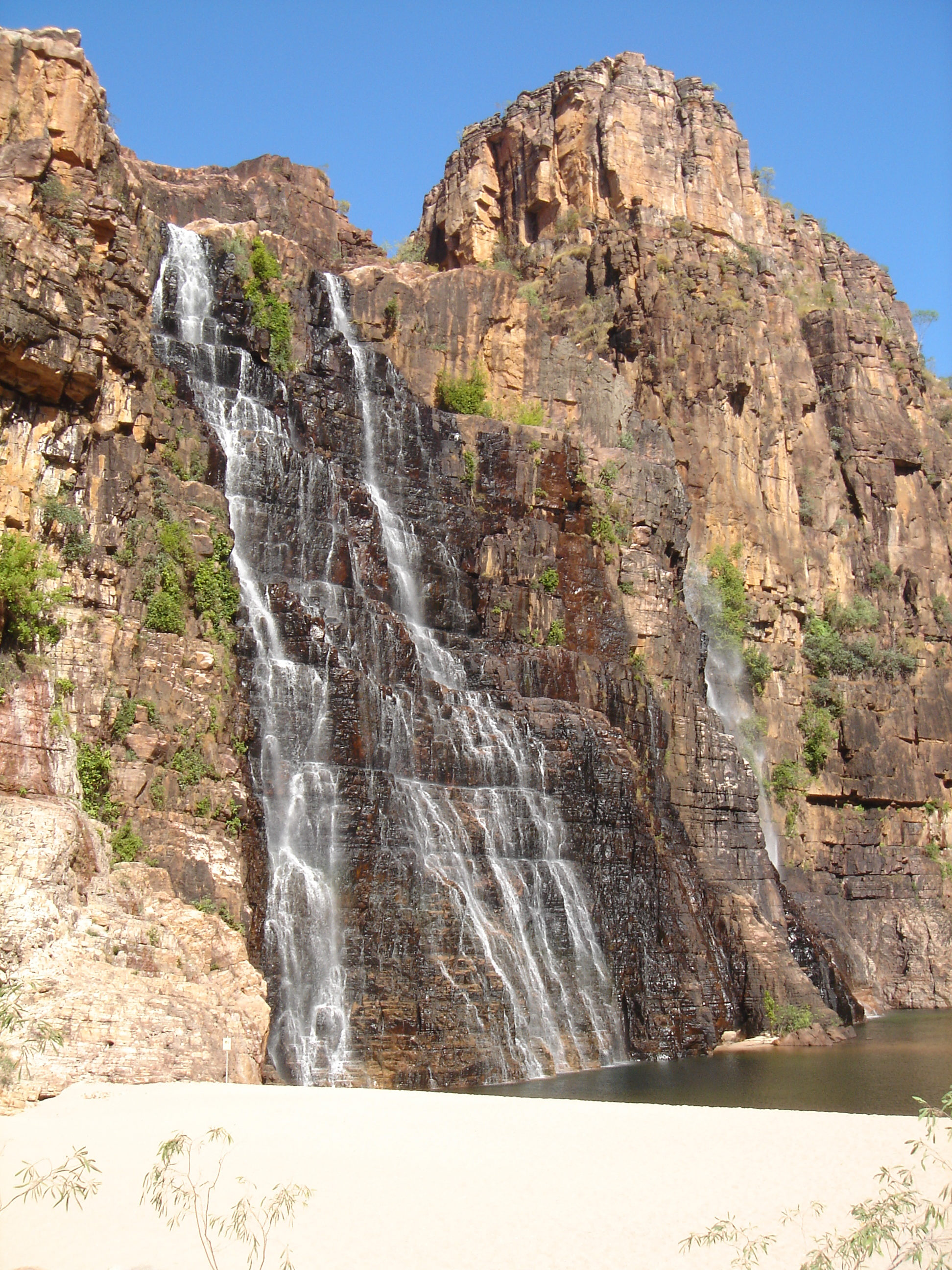 Twin Falls, Kakadu National Park, NT, Australia